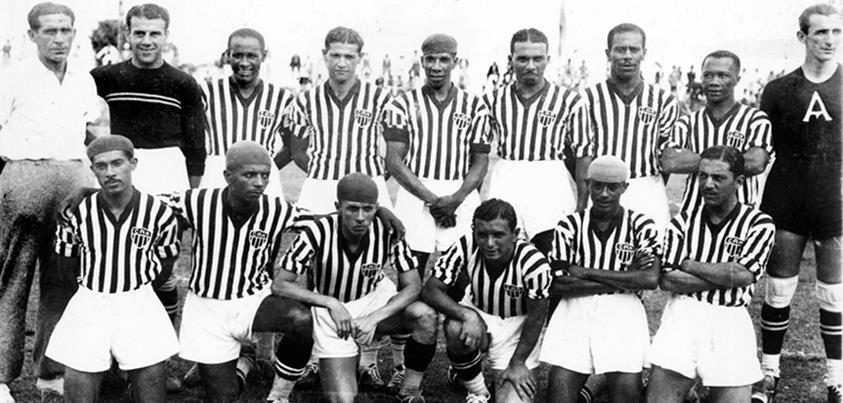 Team picture of Clube Atlético Mineiro in 1937.